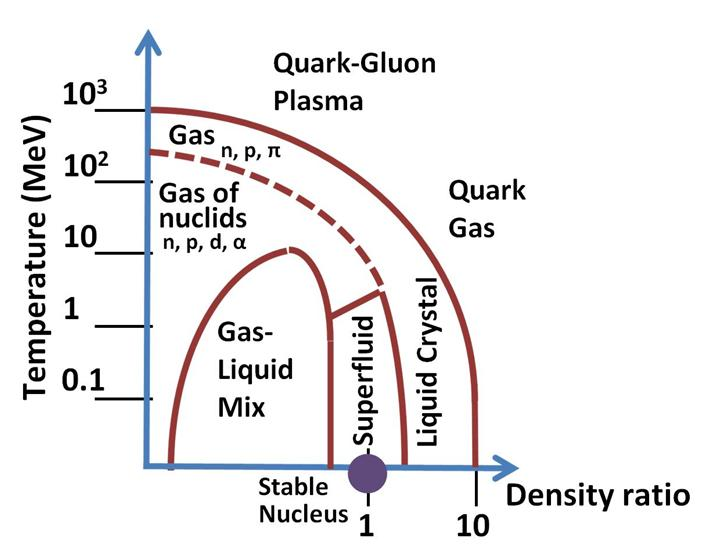 phase diagram of nuclear matter patterned after Elements Of Nuclei By Phillip John Seimens, Aksel S. Jensen